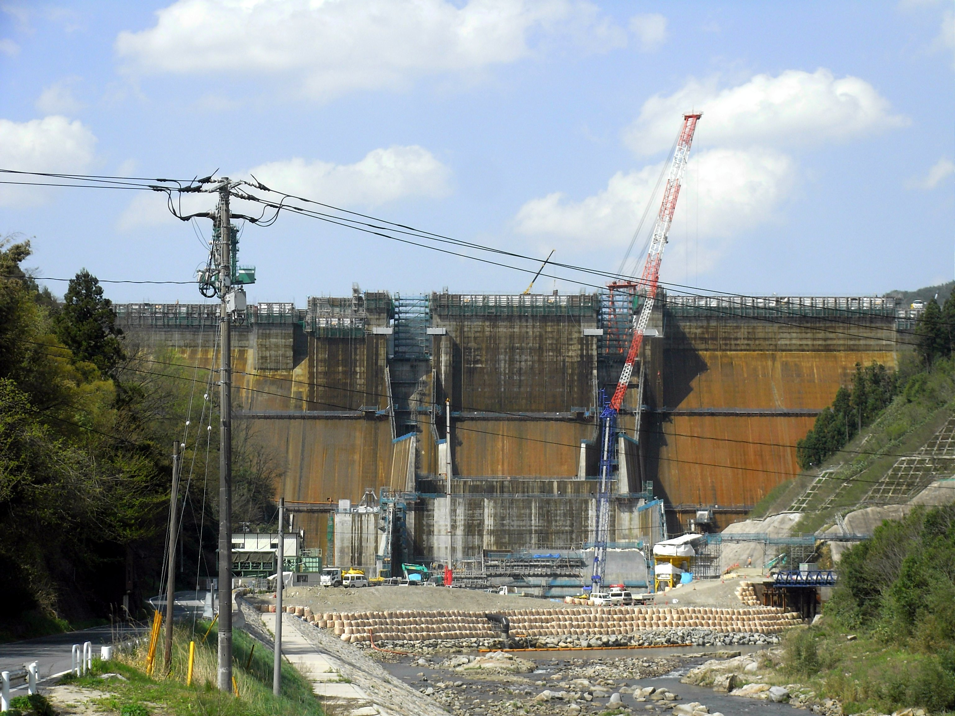 Obara Dam(Hiigawa river/Shimane pref./Japan)